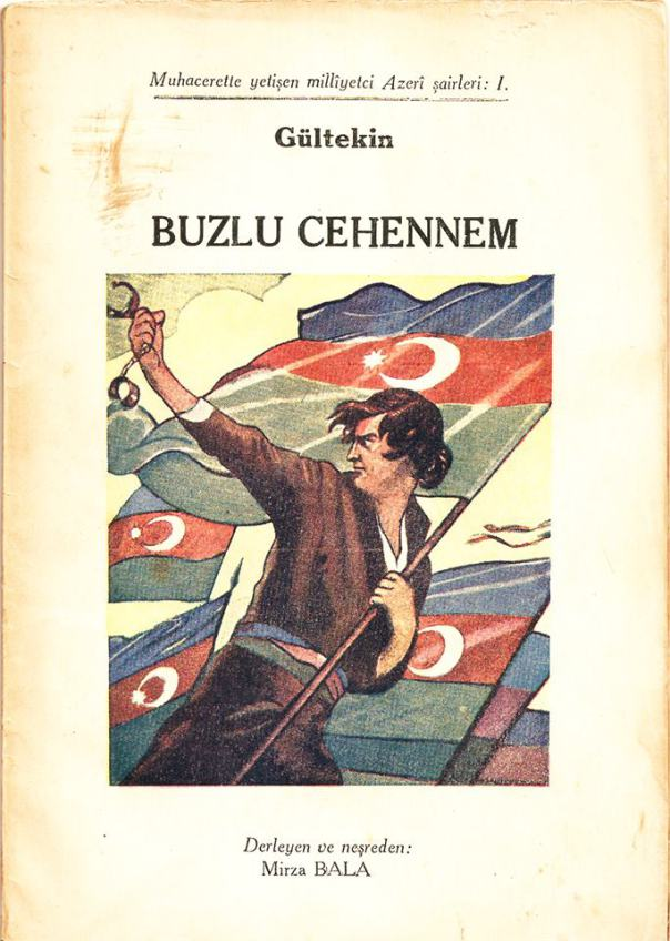 kitab